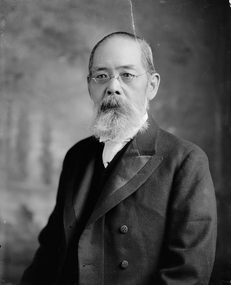 AOKI, VISCOUNT